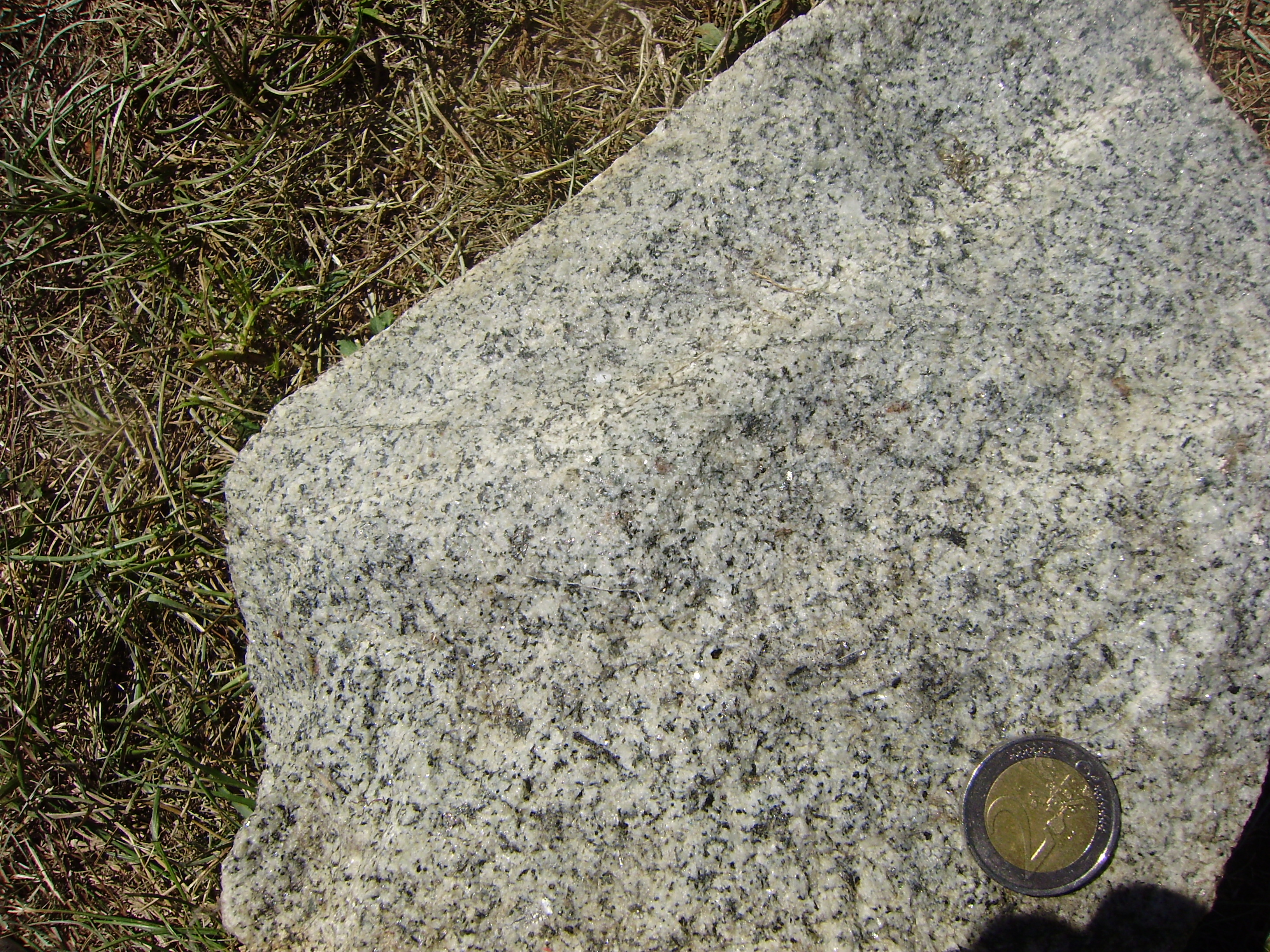 Fine-grained facies of the Piégut-Pluviers granodiorite, northwestern Massif Central, France.